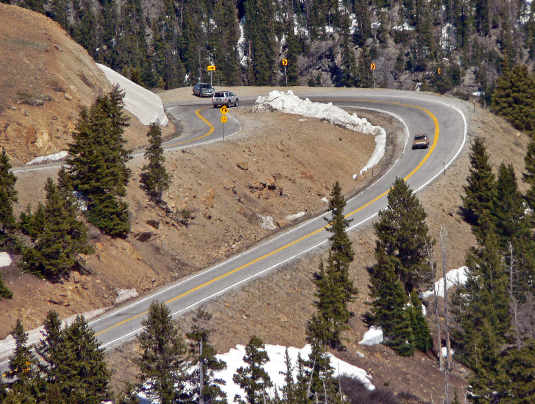 Switchback along Colorado State Highway 82 on the eastern approach to Independence Pass.